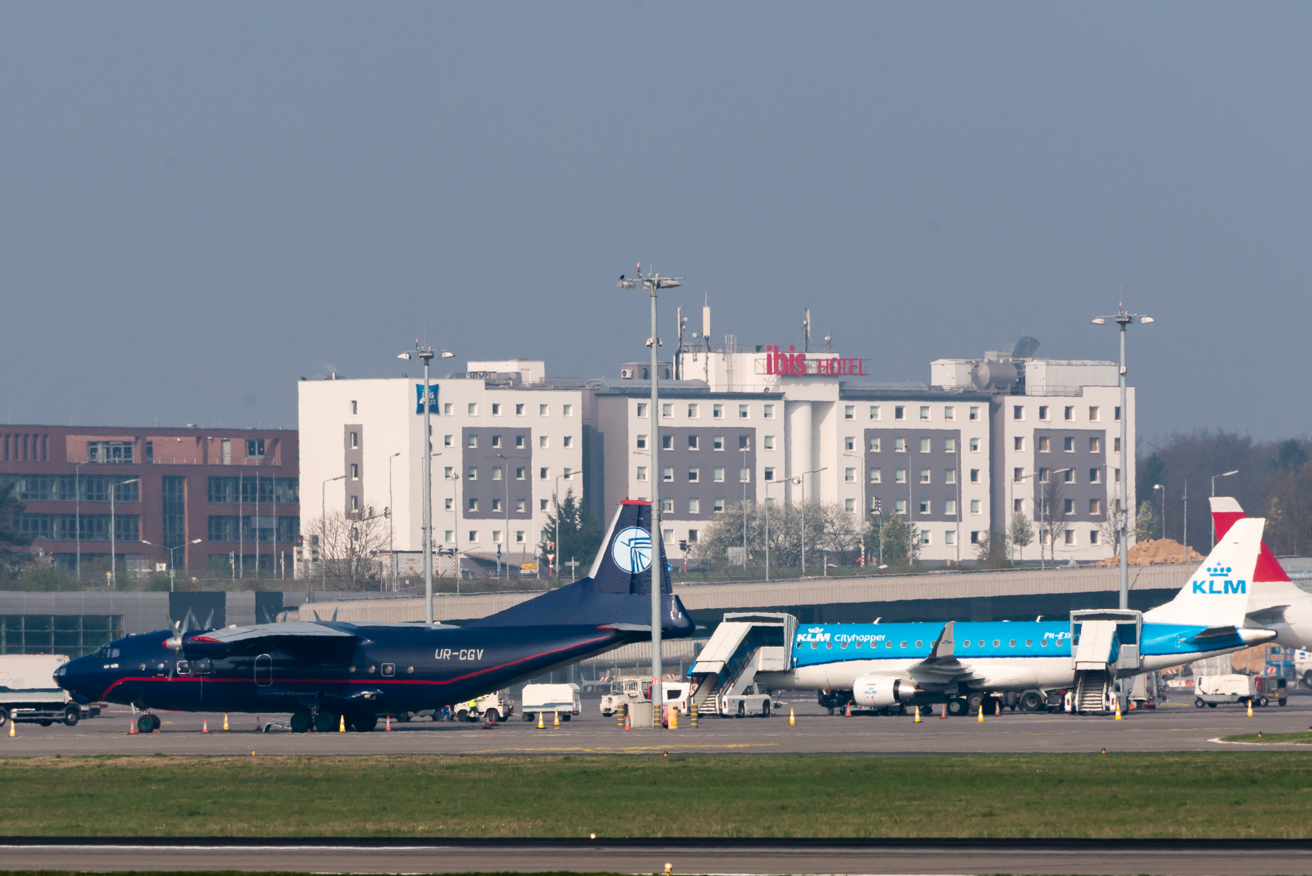 Aircraft on Terminal A apron at Luxembourg Findel Airport.